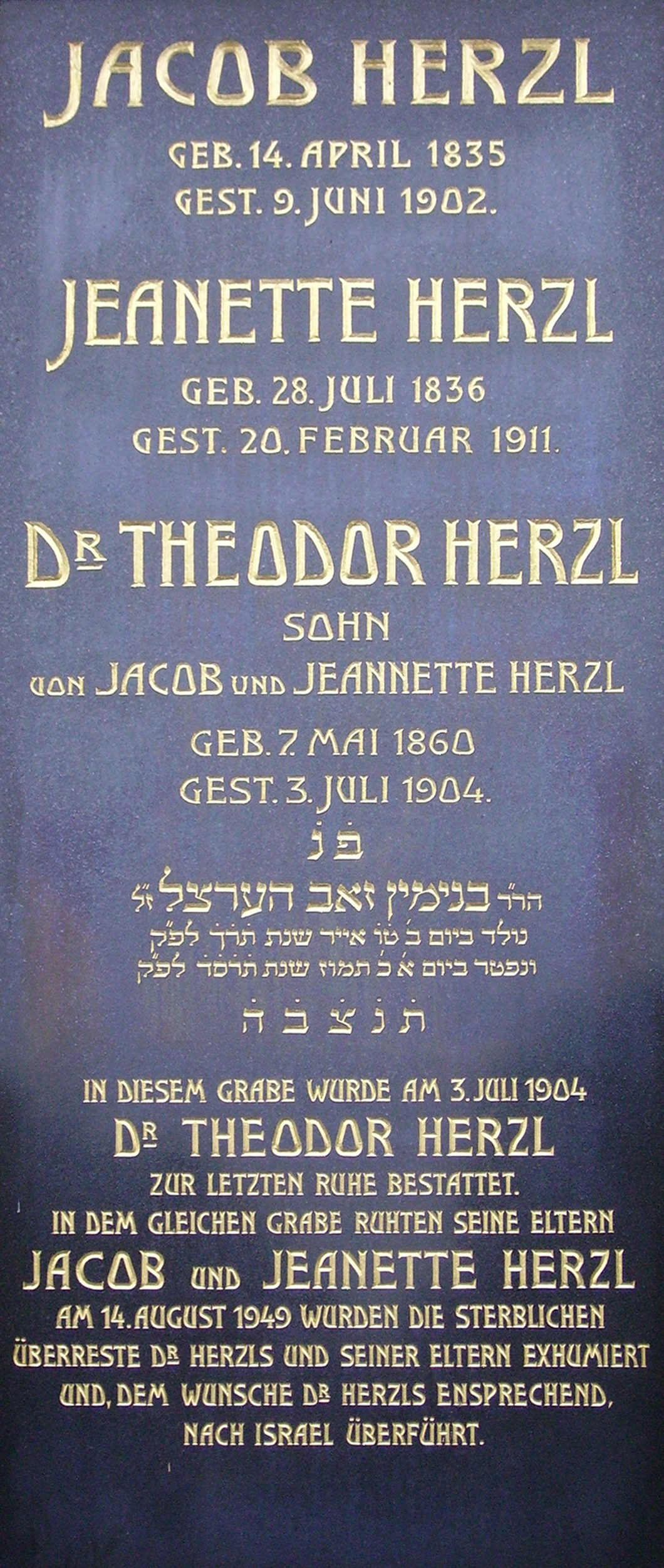 Theodor Herzl, Döblinger Friedhof, Vienna, detailed view There are two misdates in the inscription: Herzl's date of birth was May 2 (not May 7), his burial took place on July 7 (not 3 July). The wrong date of birth seems to be an contemporary mistake, you can see it also on photos of the grave from the 1920s.